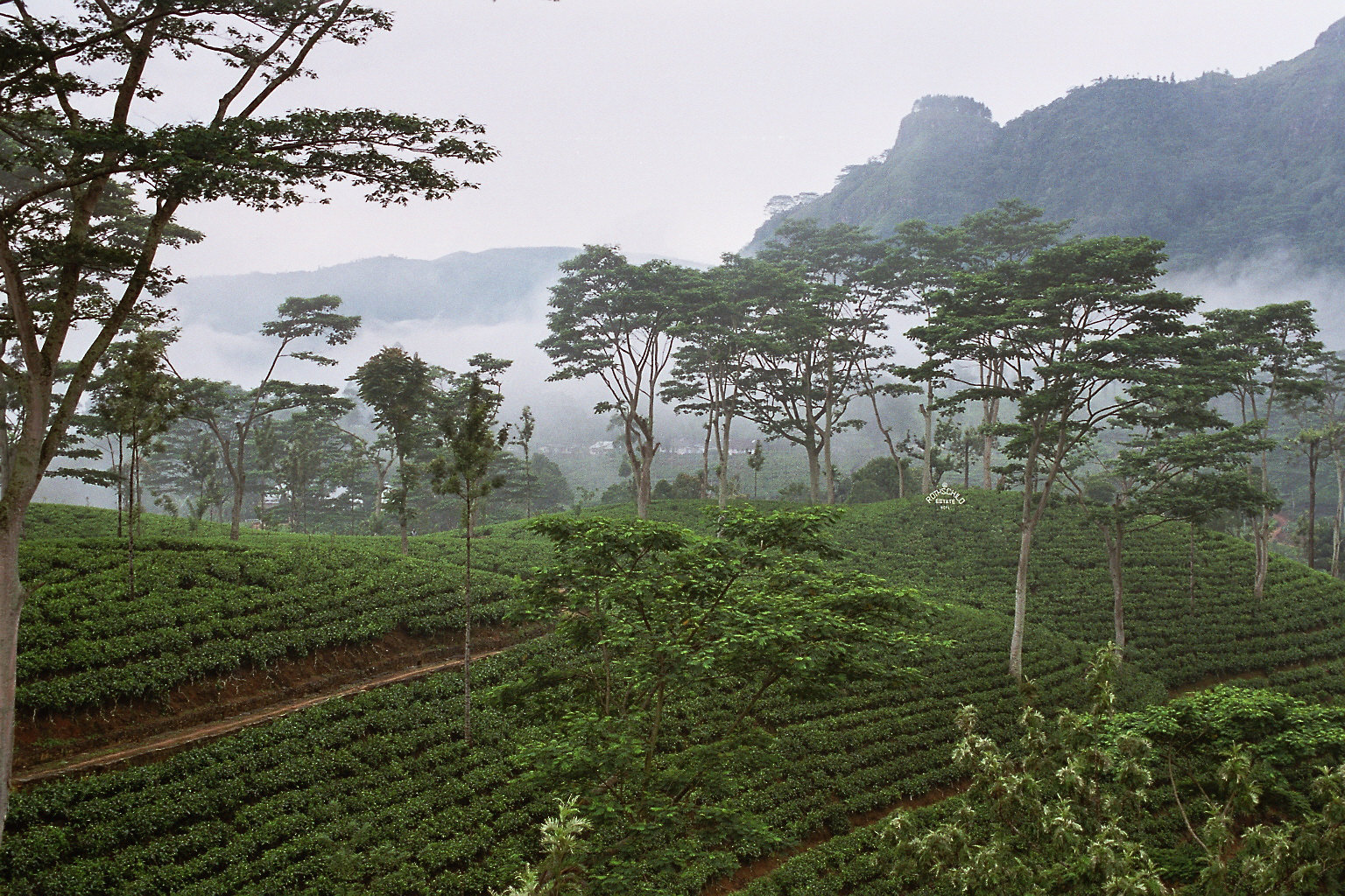 Tea plantation in Sri Lanka